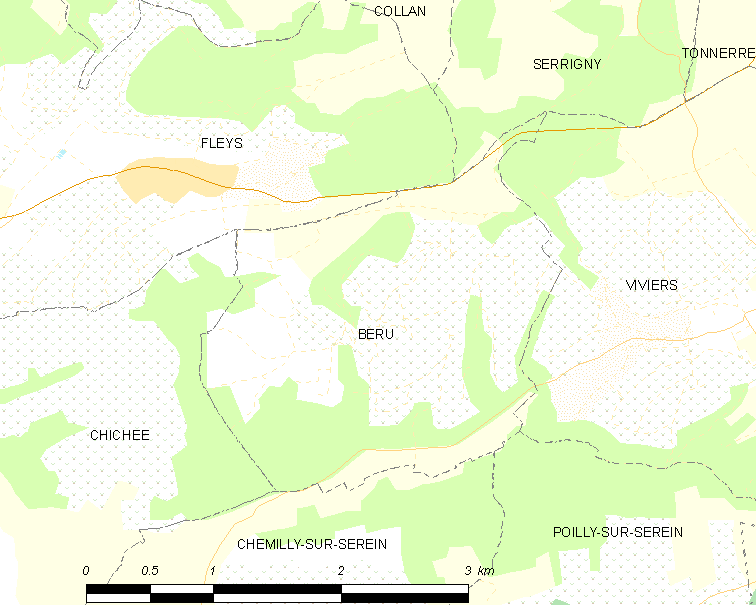 Map of French municipality Béru